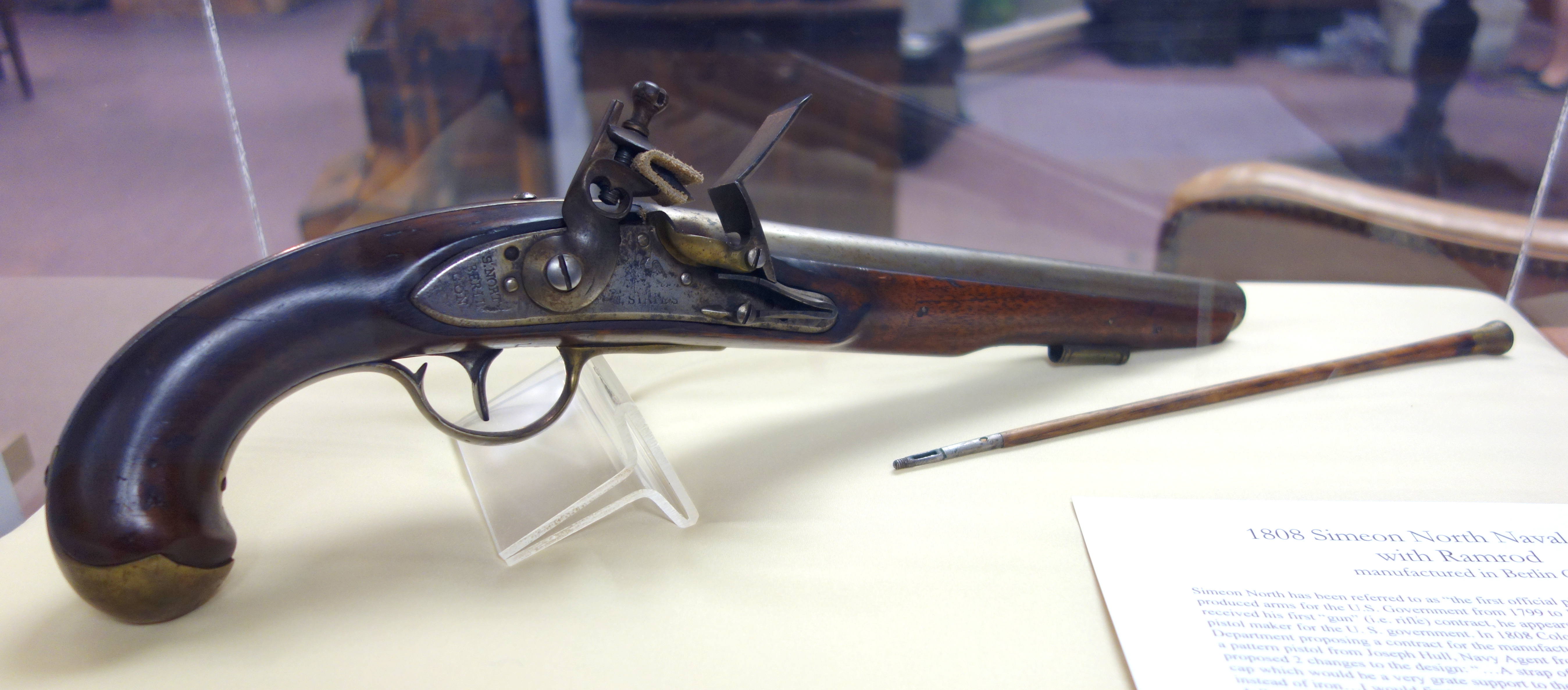 Exhibit in the New Britain Industrial Museum, New Britain, Connecticut, USA.